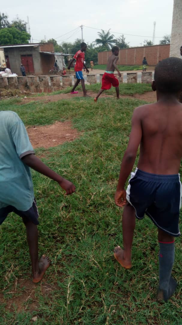 This is an image with the theme "Play" from: Burundi